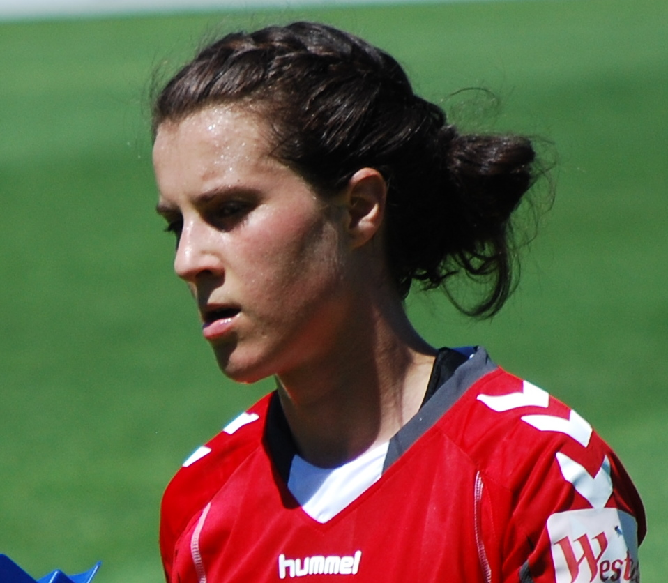 Kuralay in Adelaide colours against Perth Glory (2010)